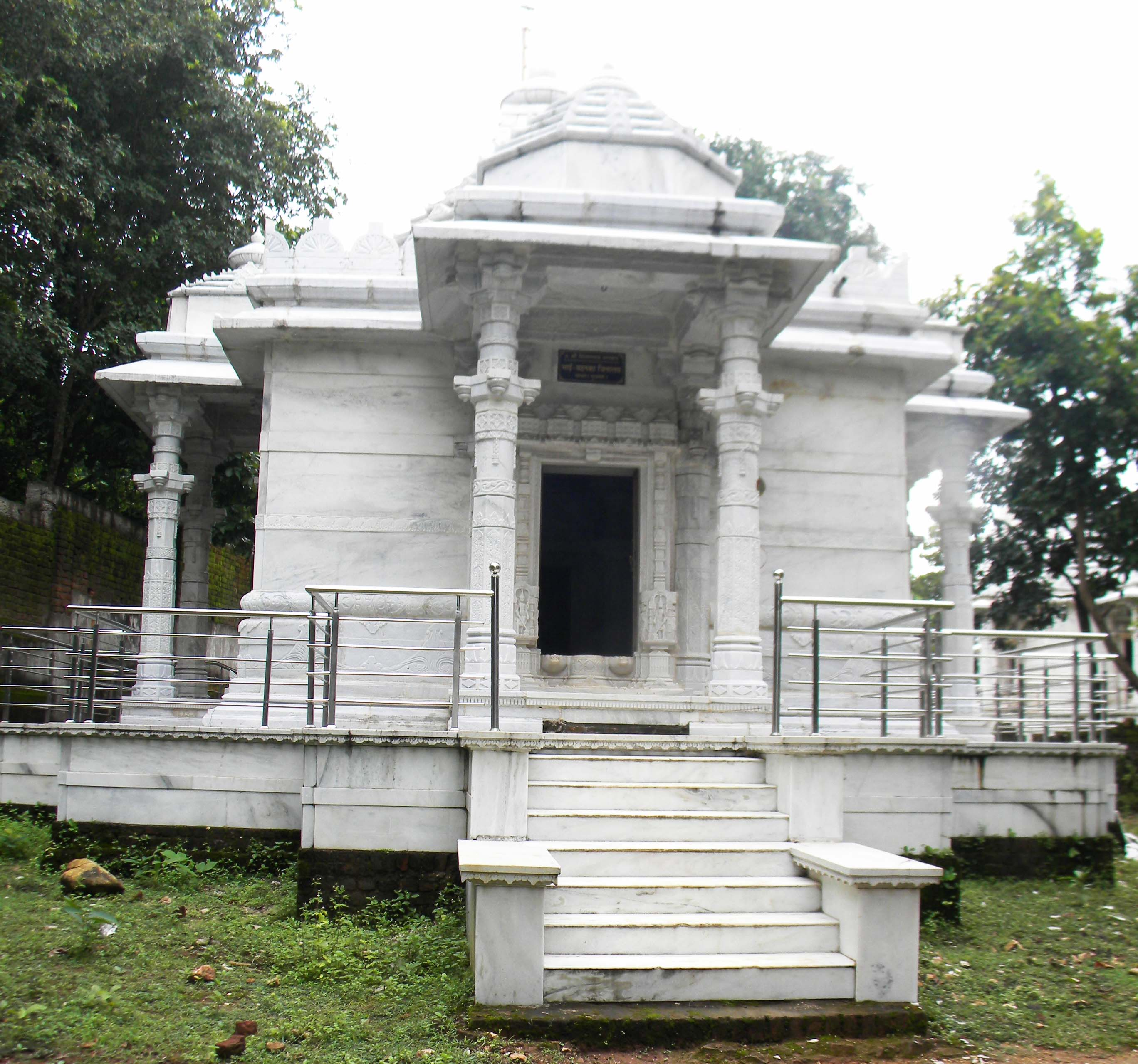 Shitalnath Temple, Madhuban, Giridih